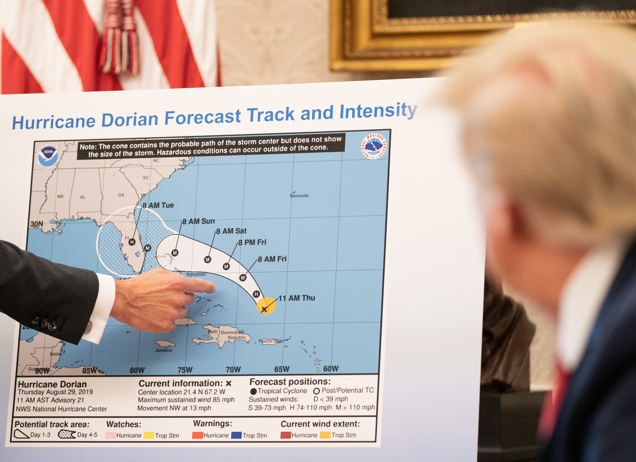 President Donald J. Trump, joined by Vice President Mike Pence, receives a briefing update on Hurricane Dorian as it approaches the U.S. mainland Thursday, Aug. 29, 2019, in the Oval Office of the White House. (Official White House Photo by Shealah Craighead)